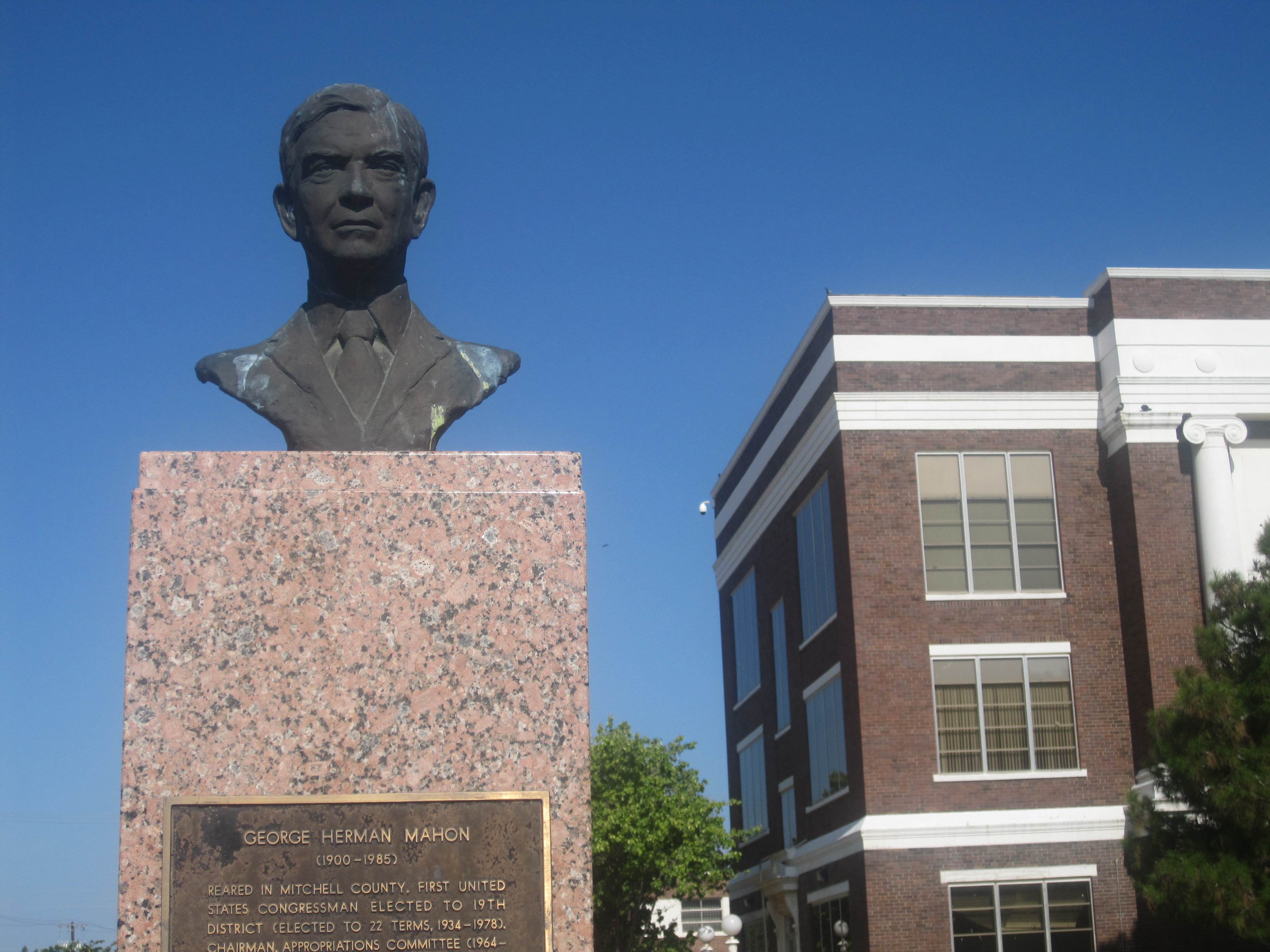 I took photo in CO City, TX, with Canon camera.